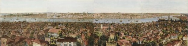 Panorama of Constantinople from the town of Galata (one of 8 aquatint illustrations)